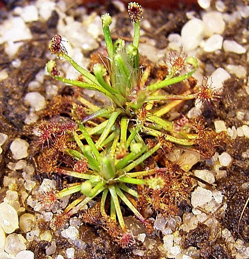 Drosera meristocaulis young plant, habit